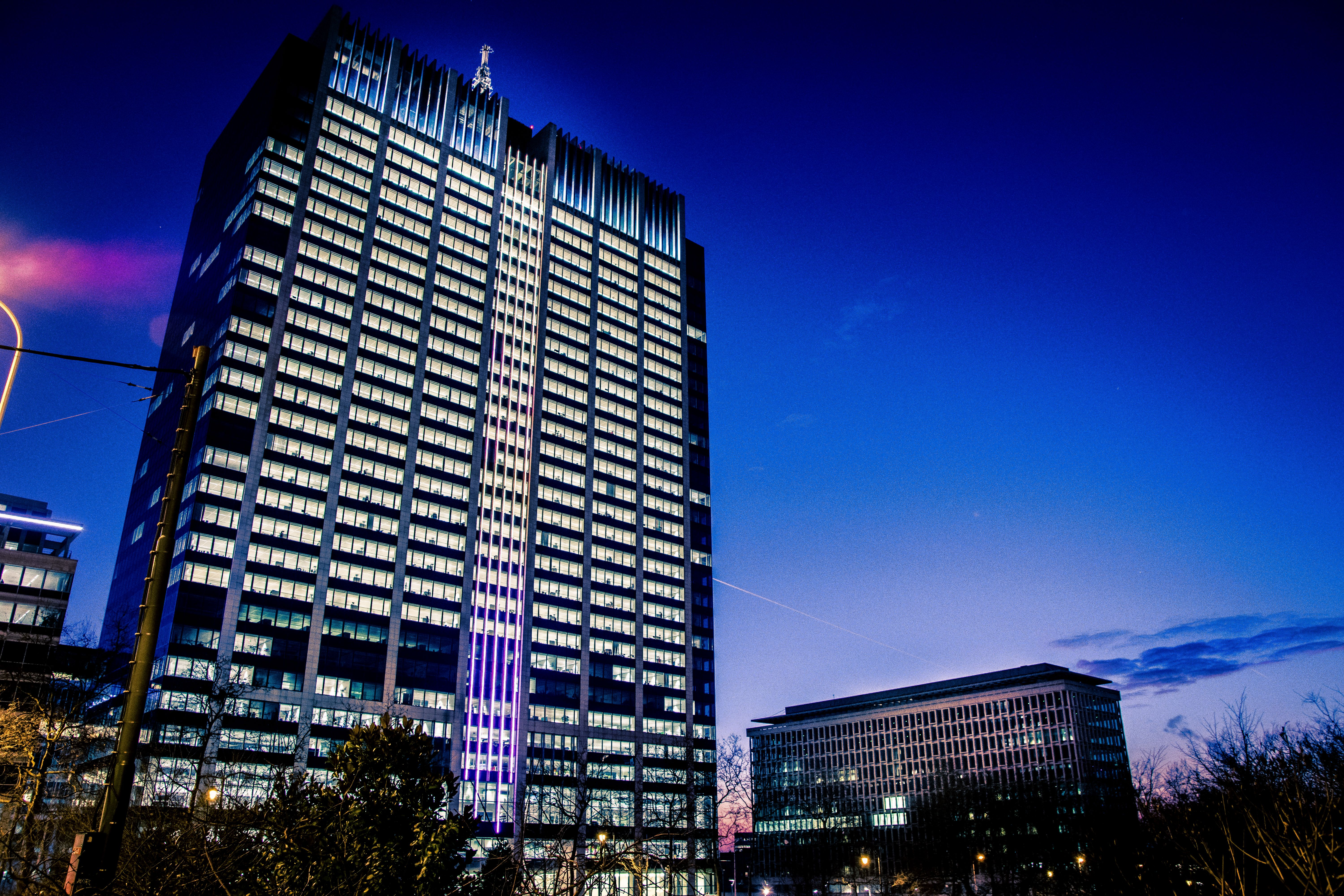 Finance tower in Brussels (near Botanique), taken during the blue hour. Slight rework in LR. Details see exif info.